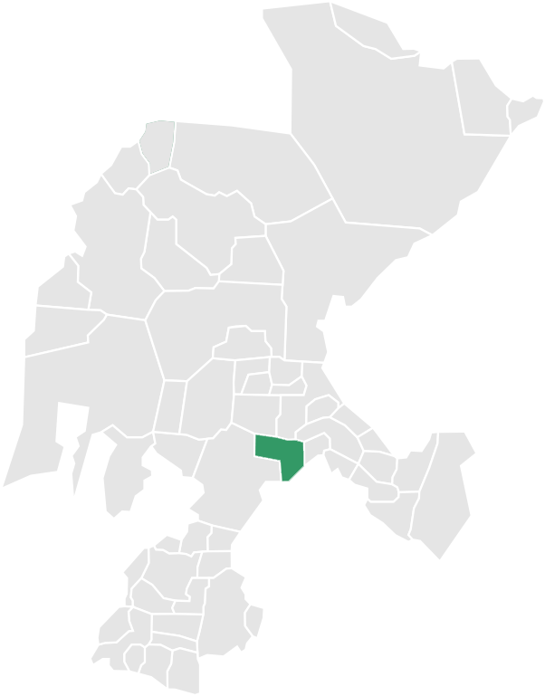 Map of the Municipality of Genaro Codina in Zacatecas, México.